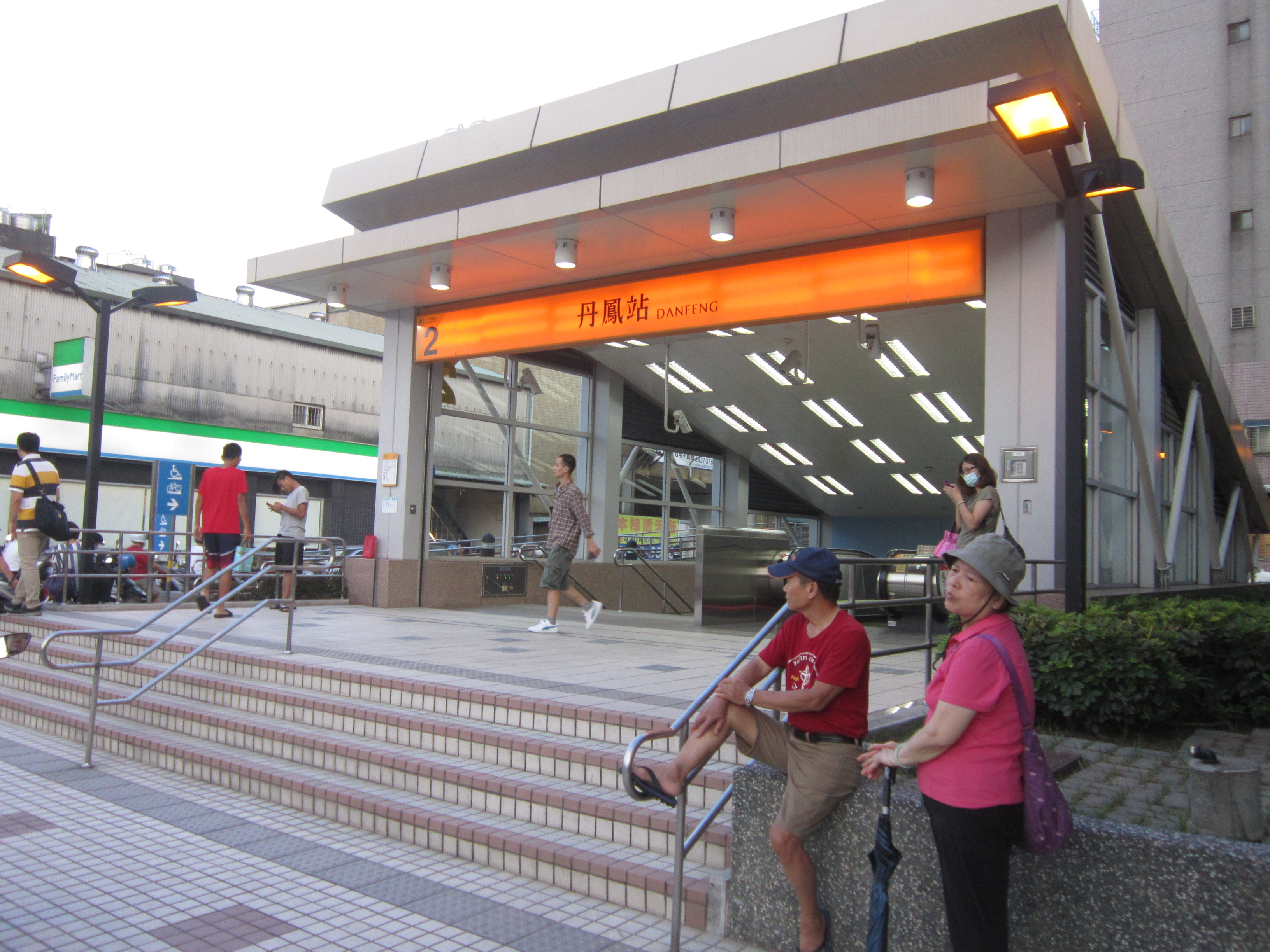 Exit 2, Danfeng Station, Taipei MRT.